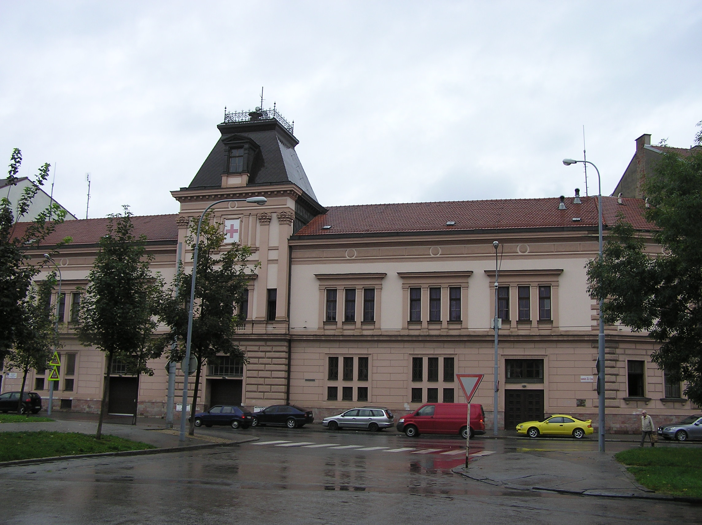 Regional center and station of the Emergency Medical Service of South Moravian Region in Brno, Czech Republic